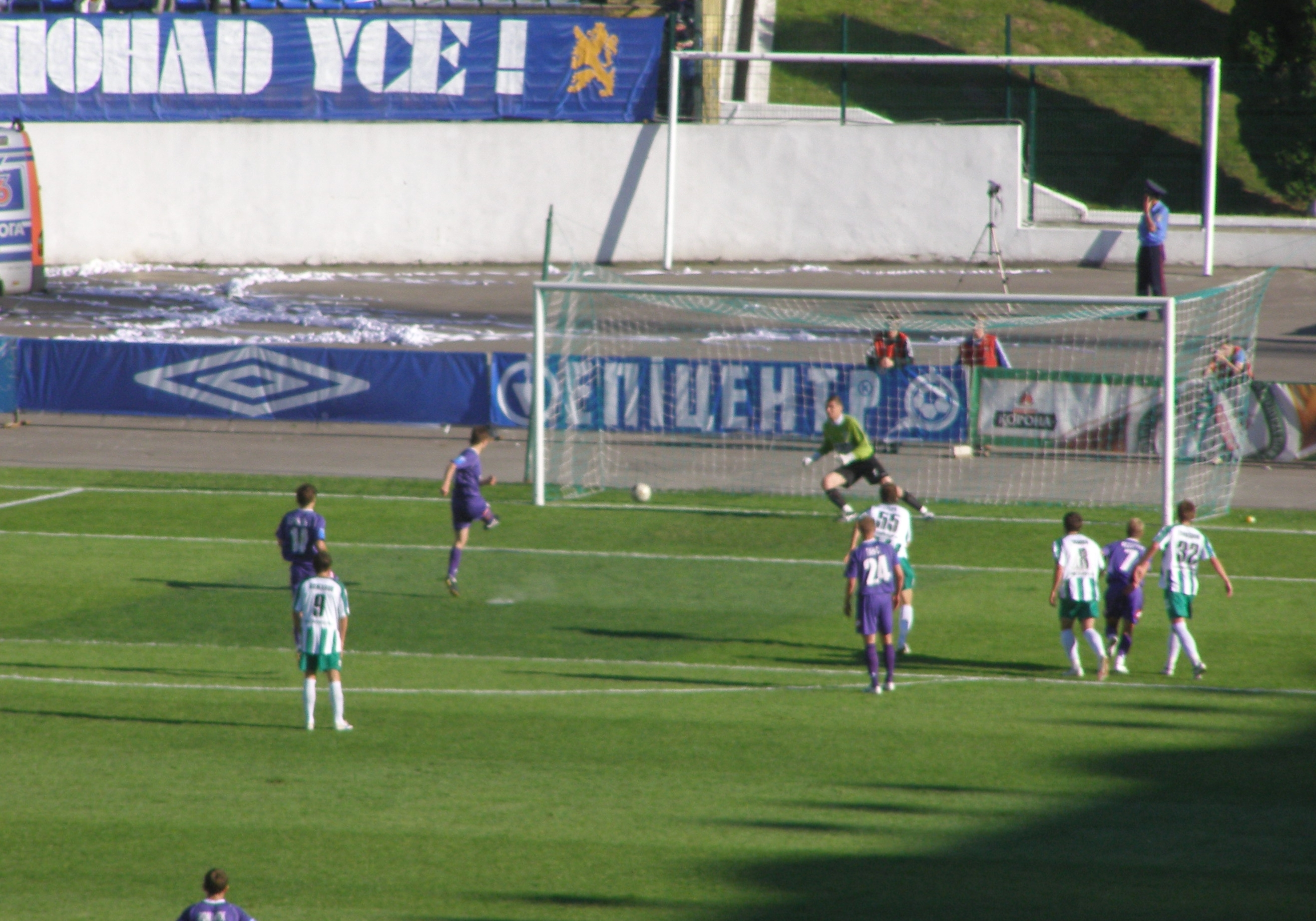 Hryhoriy Baranets misses penalty in Lviv derby against Karpaty